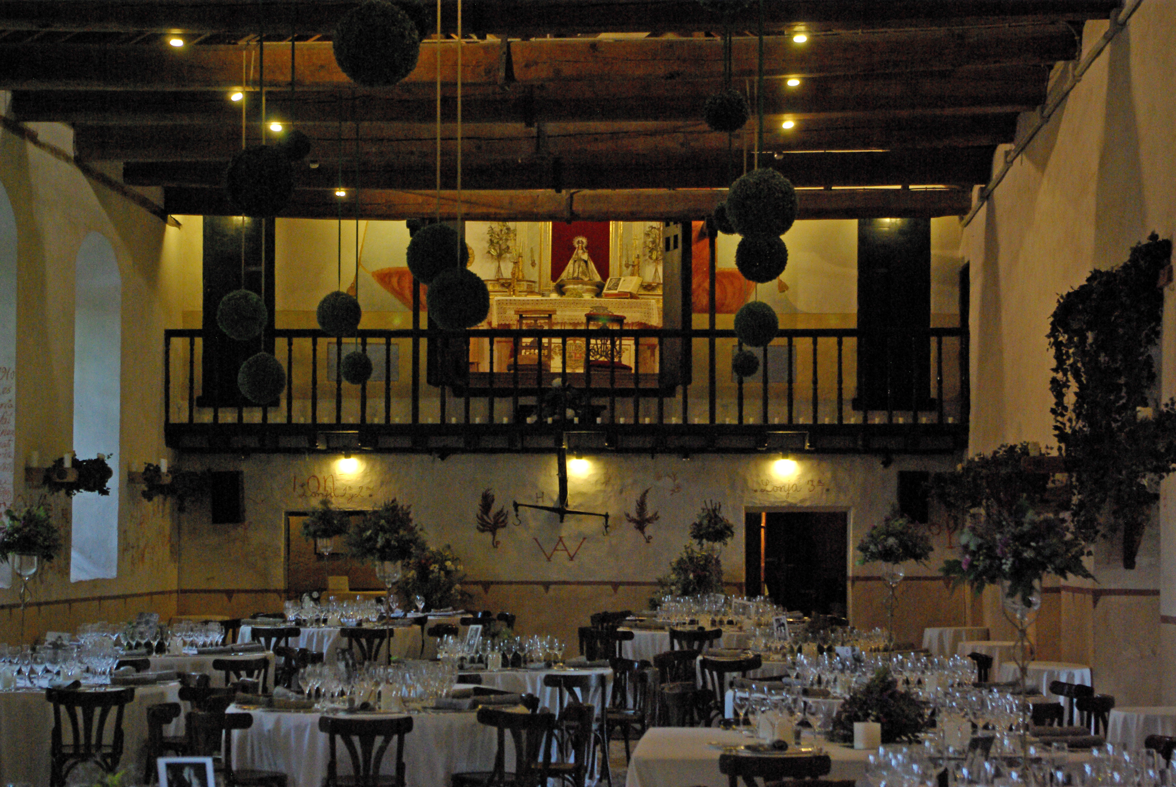 Inside sheep shearing shed in Cabanillas del Monte, Torrecaballeros (Segovia, Spain).